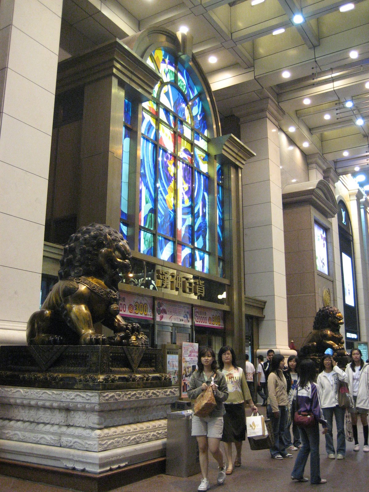 Hanshin Department Store @ Kaohsiung